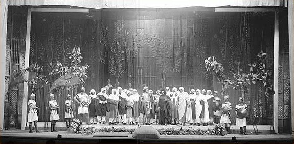 Stage from the opera Leyla and Majnun (1908) by Uzeyir Hajibeyov